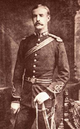 A photo of the Captain William Grant Stairs from 1886